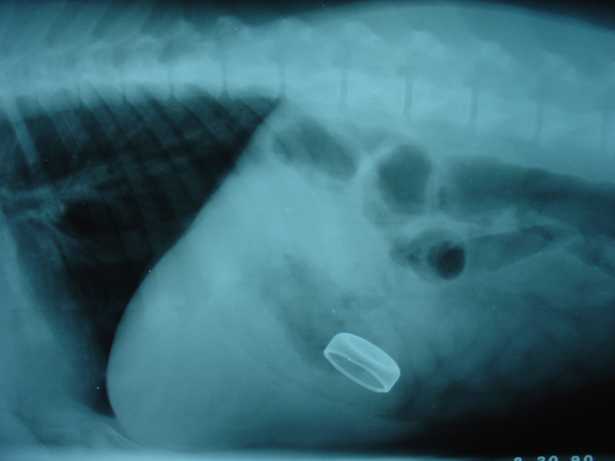 X-ray of a dog who has swallowed the top from a ketchup bottle. The bottle top is lodged in the stomach. Photo taken by Joel Mills on January 17, 2006.